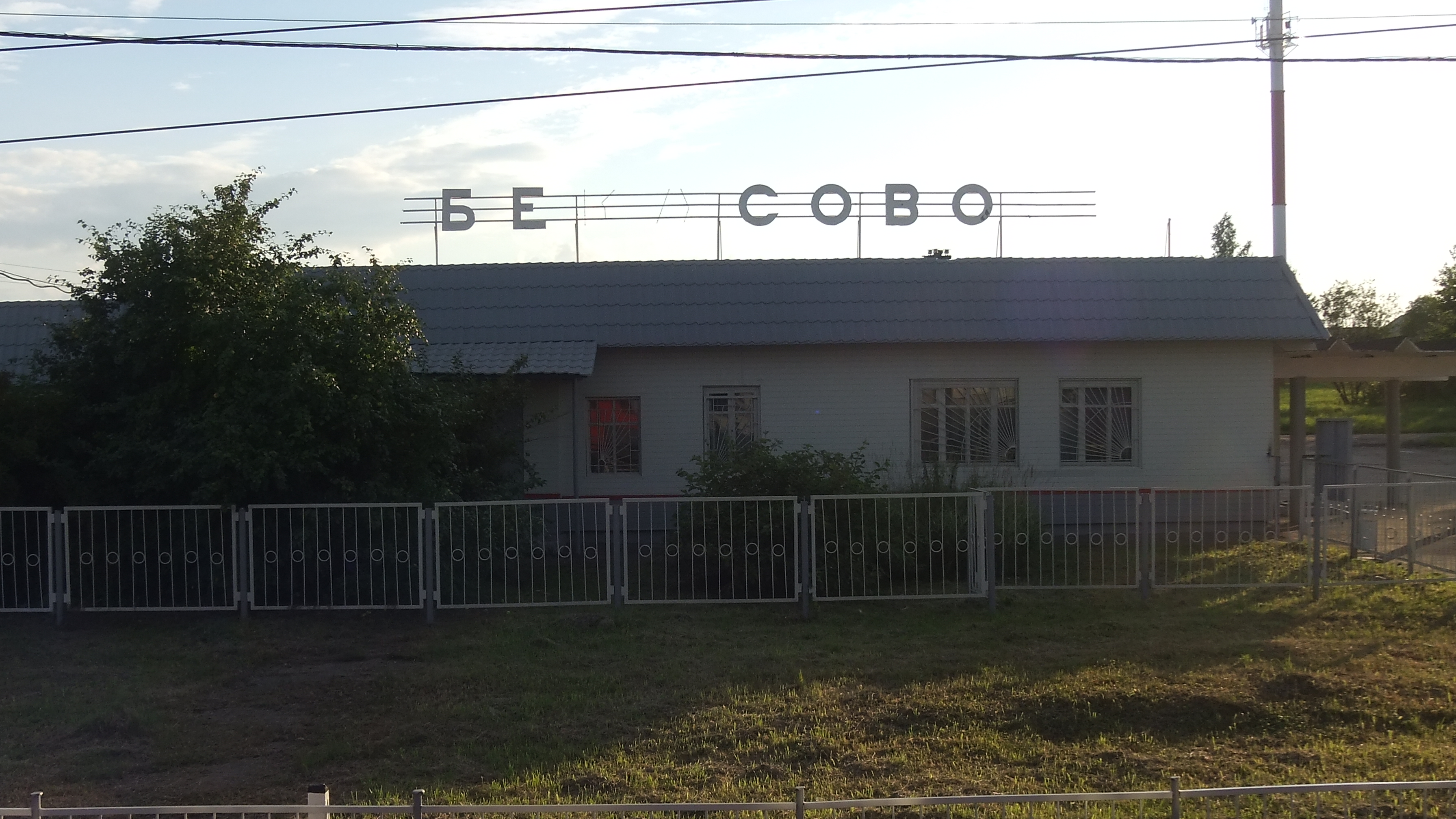 August 2013. Vandalism on platform name, some letters stolen. Letters were Бекасово-Сорт., now Бе..сово